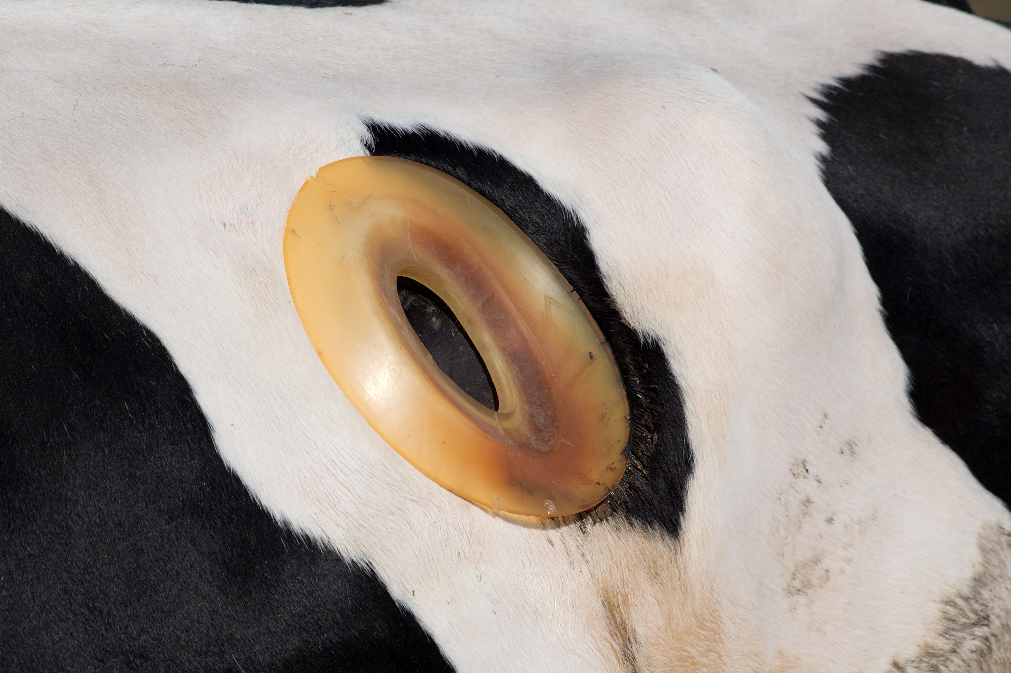 Cannulated cow.[1]